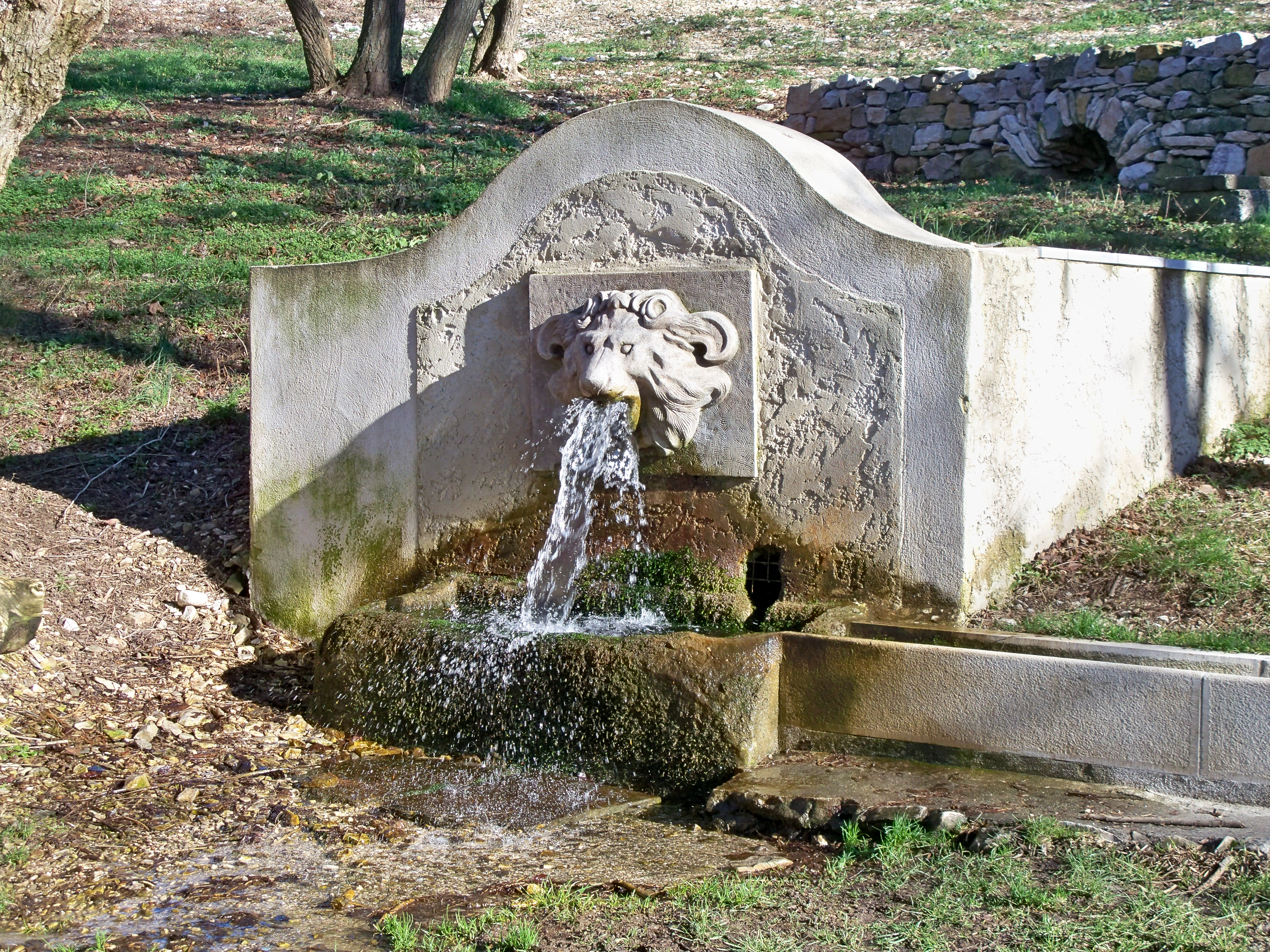 Fountain near Ladiers (Alpes de Haute de Provence, France)